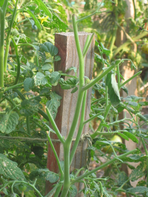 See title